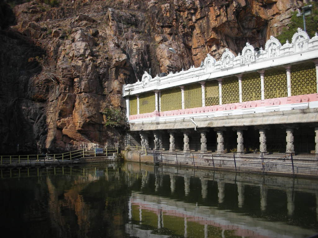 Kapilatheertam is the location of the only Shiva Temple in Tirupati